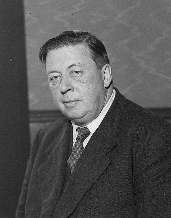 Leif Jensson was a Norwegian radio journalist and author. He was especially known during the war days in May 1940 when he led the last free radio broadcasts in Norway. Inventory number: FTTF.SCH.V.006667.01